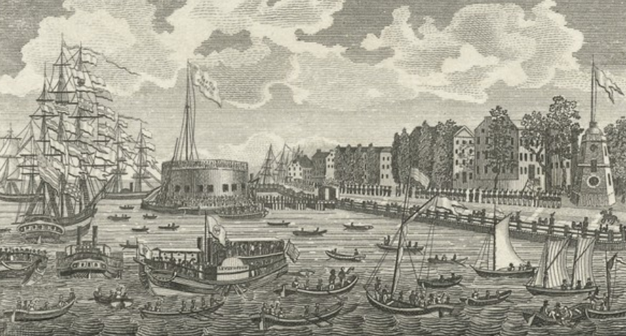 Landing of Gen. Lafayette at Castle Garden, New York, 16th August 1824